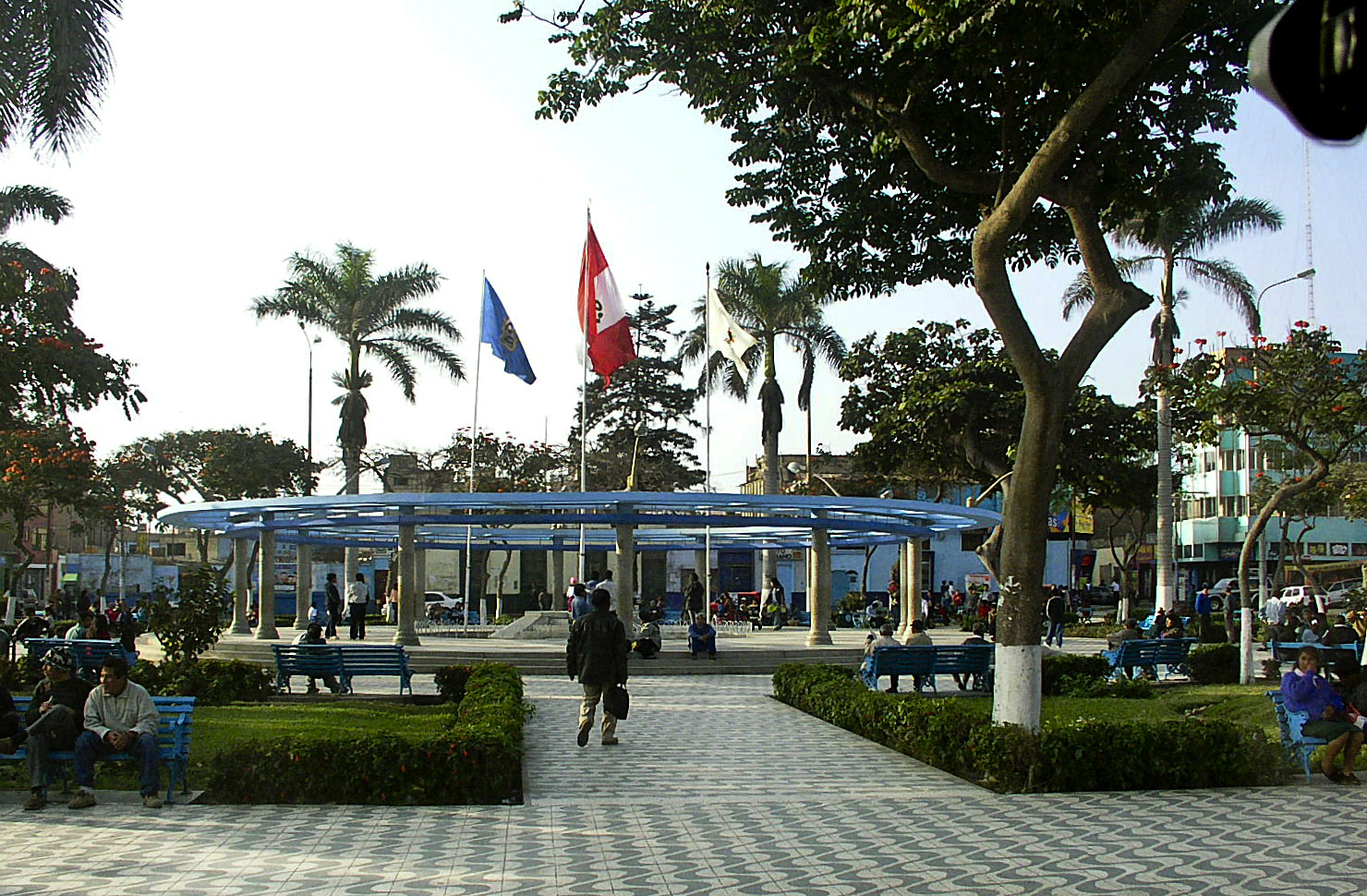 Plaza de Armas de Huacho, Huacho, Provincia de Huaura, Región de Lima, Peru.